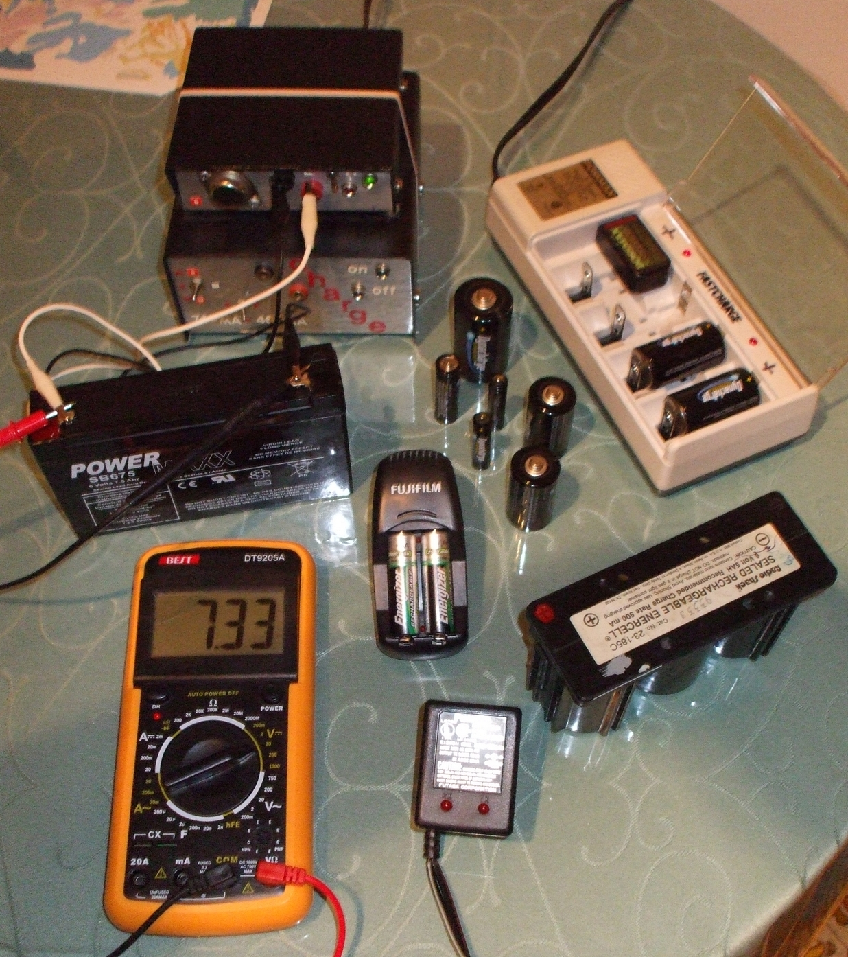 battery chargers